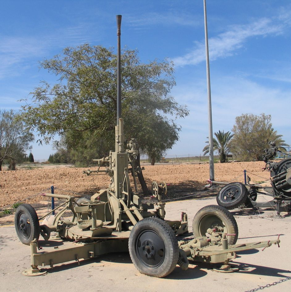 Description: Soviet M1939 37 mm AA gun at Muzeyon Heyl ha-Avir, Hatzerim airbase, Israel. 2006. Source: Photo by me, User:Bukvoed.